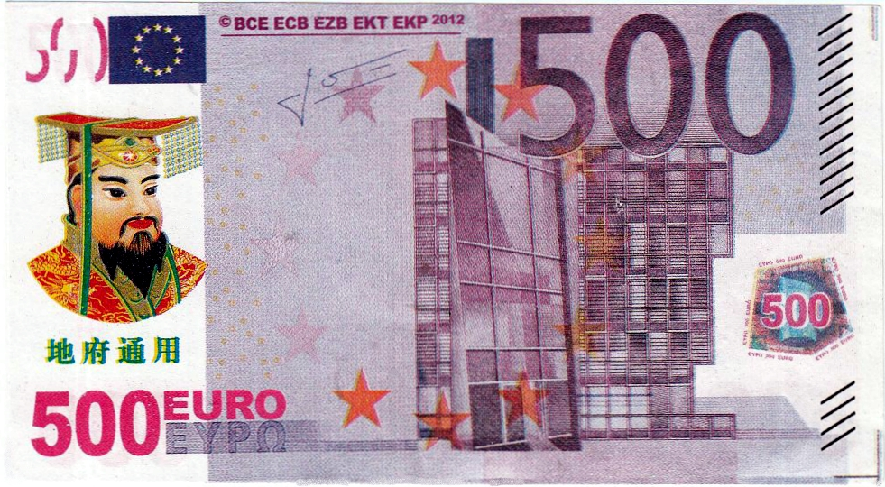 Hell money (ghost money, joss money, joss paper) in the style of an Euro banknote (with many changes but e. g. the original signature of the president of the European Central Bank).